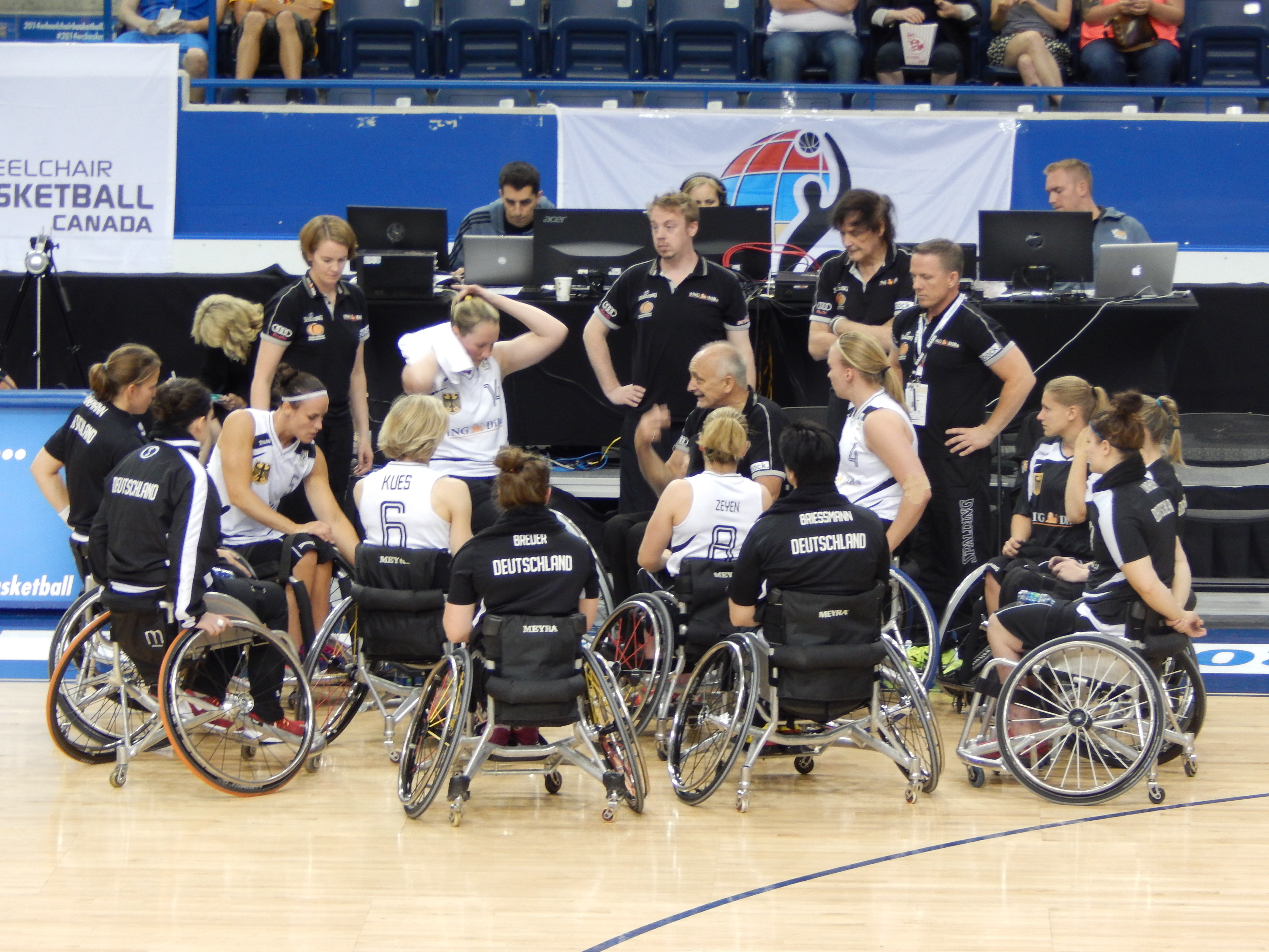 Team Germany